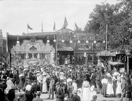 A large crowd gathered outside the spectacle in St Giles, during the annual fair held at the beginning of September, 1905. Features Taylor's Royal Electric Coliseum.